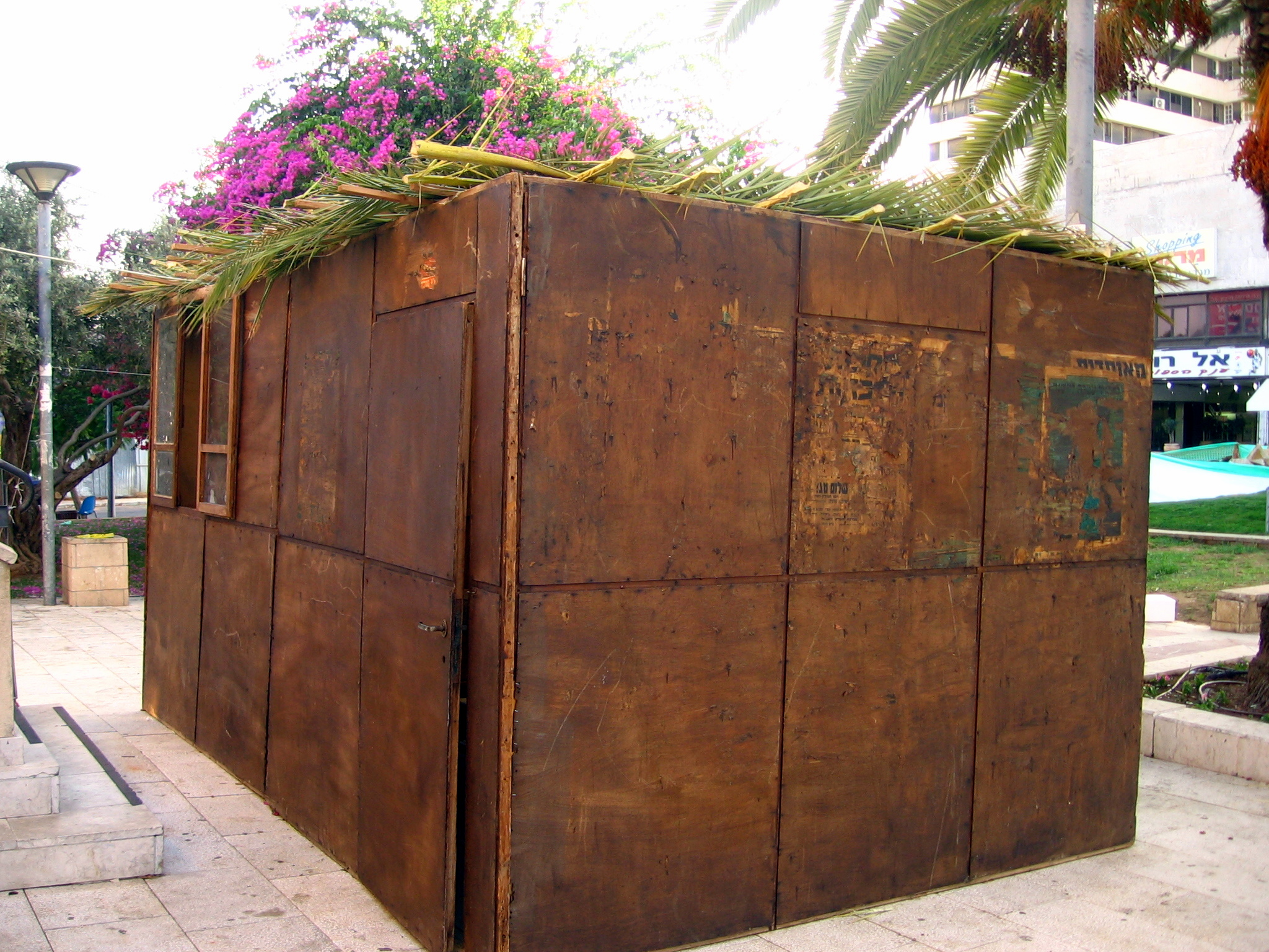 Sukkah in Great Synagogue of Herzliya, Israel.